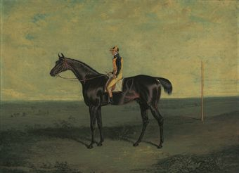 Painting of the British racehorse Doctor Syntax by the painter. John Frederick Herring Sr. (1795-1865) Artist dead for 147 years.